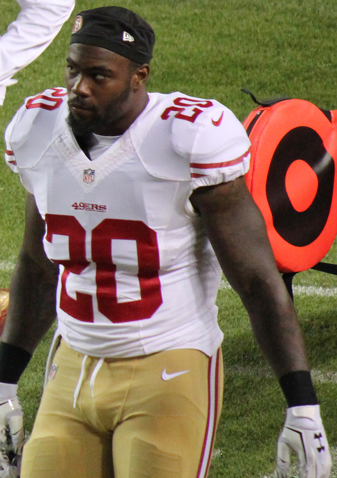 Mike Davis, a player on the National Football League.